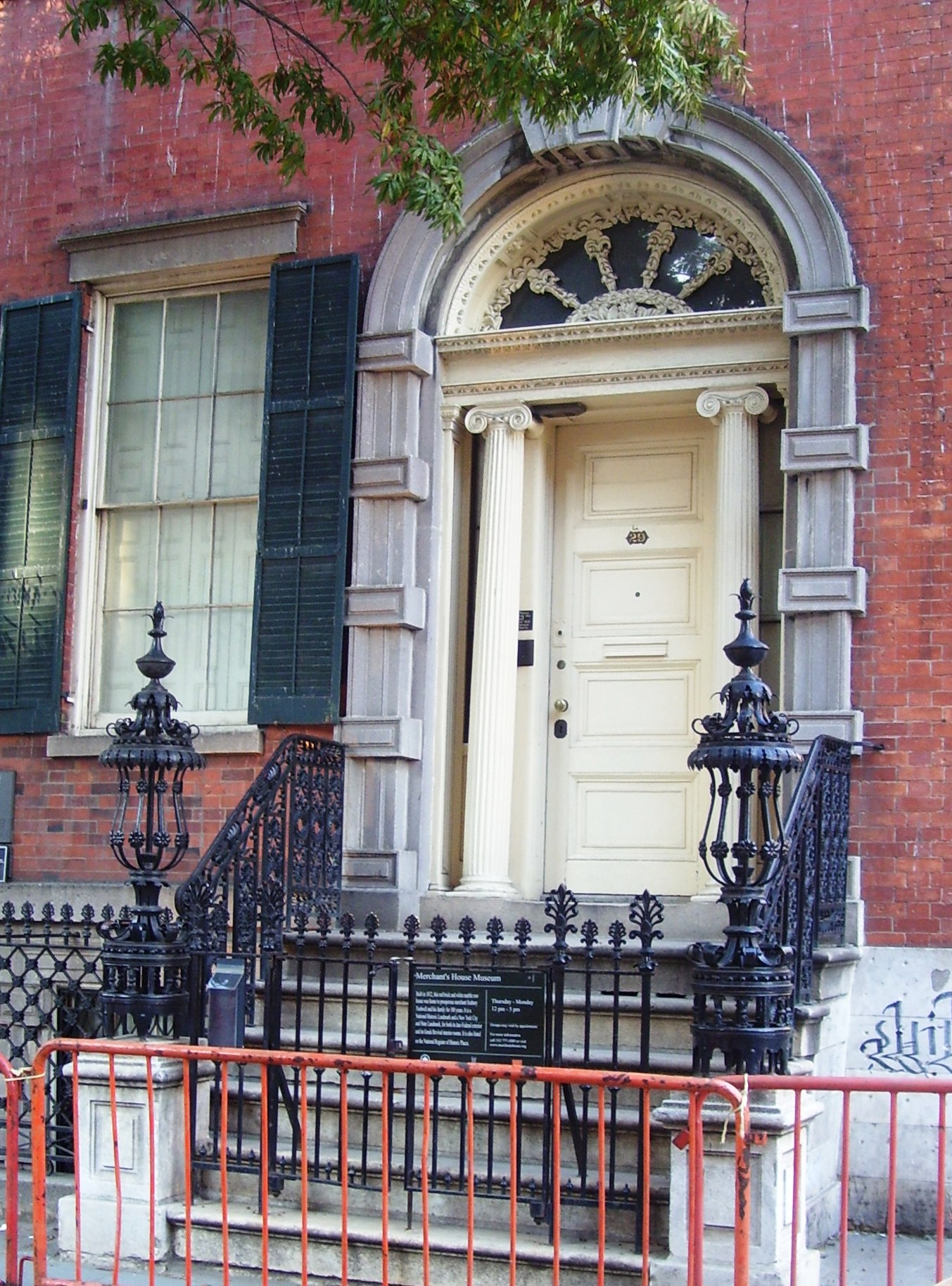 The Merchant's House Museum at 29 East 4th Street between the Bowery and Lafayette Street in the NoHo district of lower Manhattan, New York City.